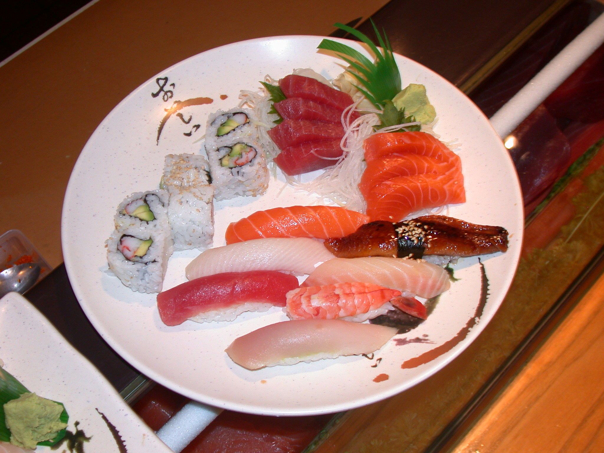 Kawa Sushi in Livermore